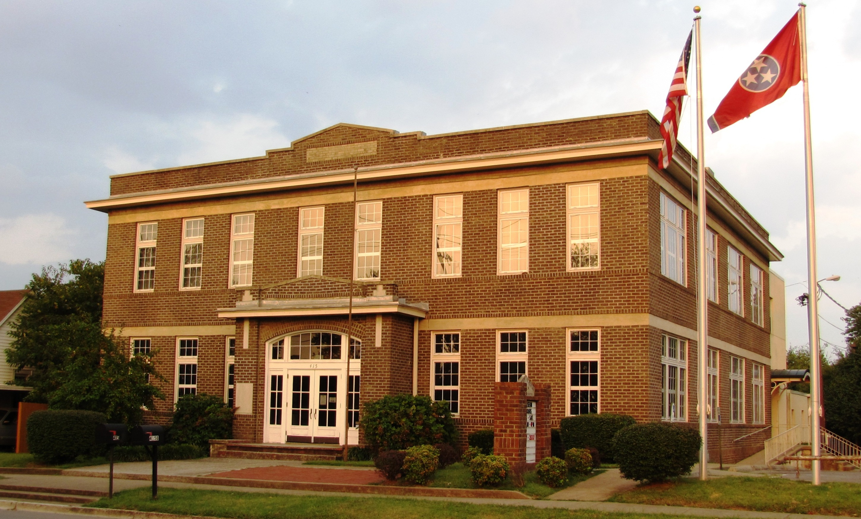 The Bradley Academy Historical Center in Murfreesboro, Tennessee, USA. Established in 1811, Bradley Academy would eventually become one of the first in the state of offer formal instruction to African-American students. The current school building was constructed in 1917, and is now listed on the National Register of Historic Places.